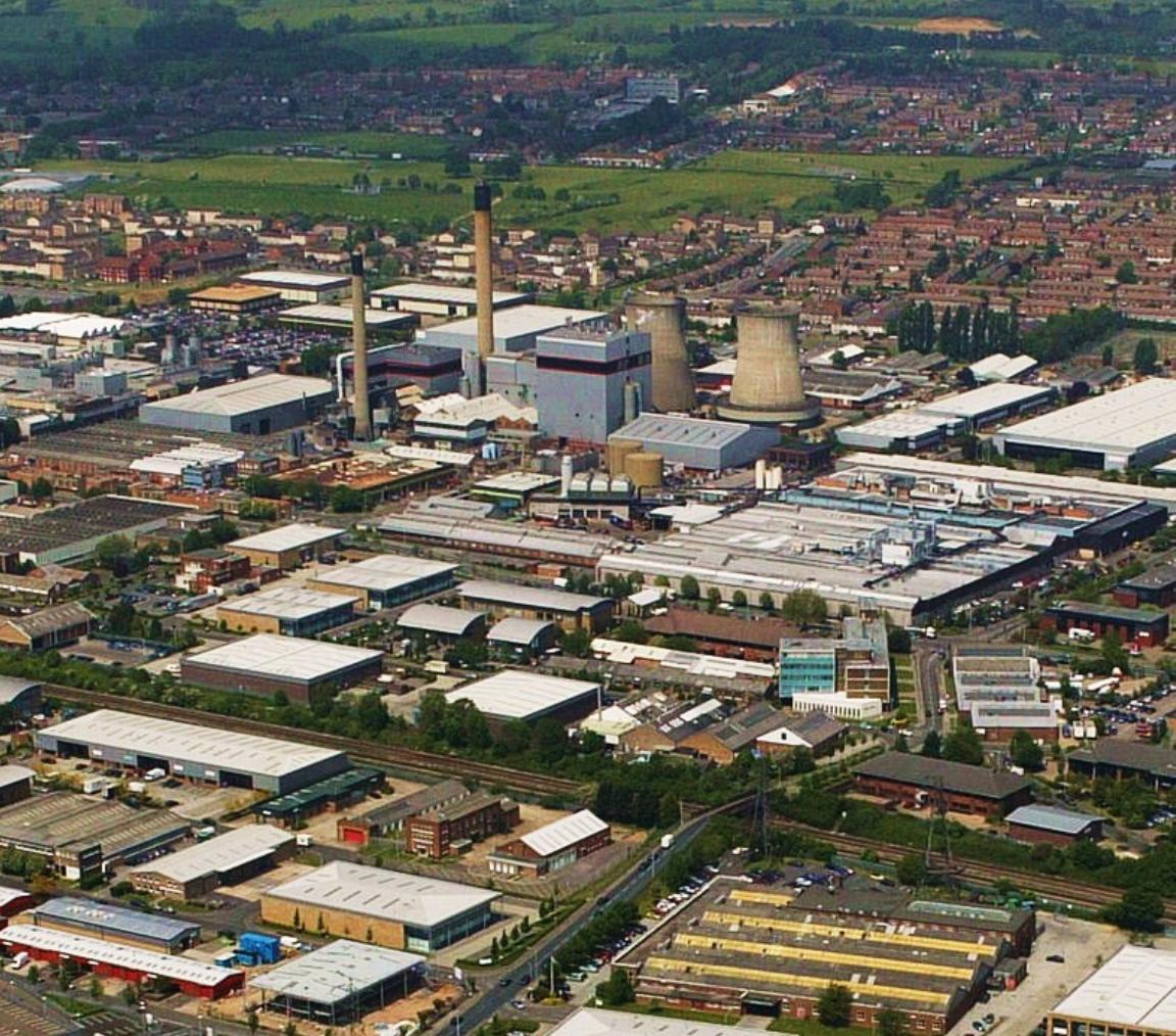 An aerial view photograph taken over the infamous Slough Trading Estate in Slough, Berkshire. United Kingdom.